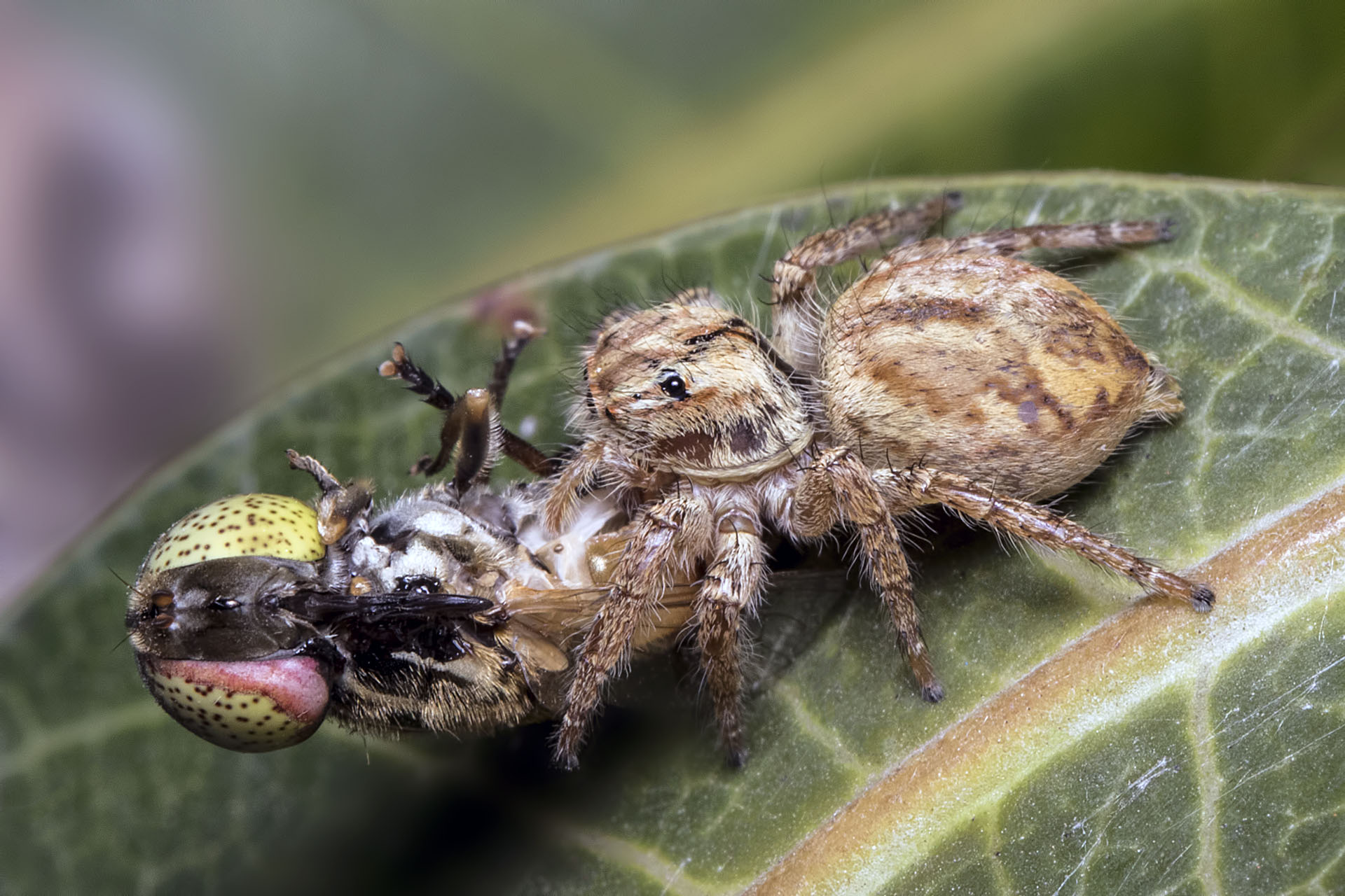 Predator: Unknown species, Family:Salticidae Prey: Hoverfly (Tribe: eristalini)